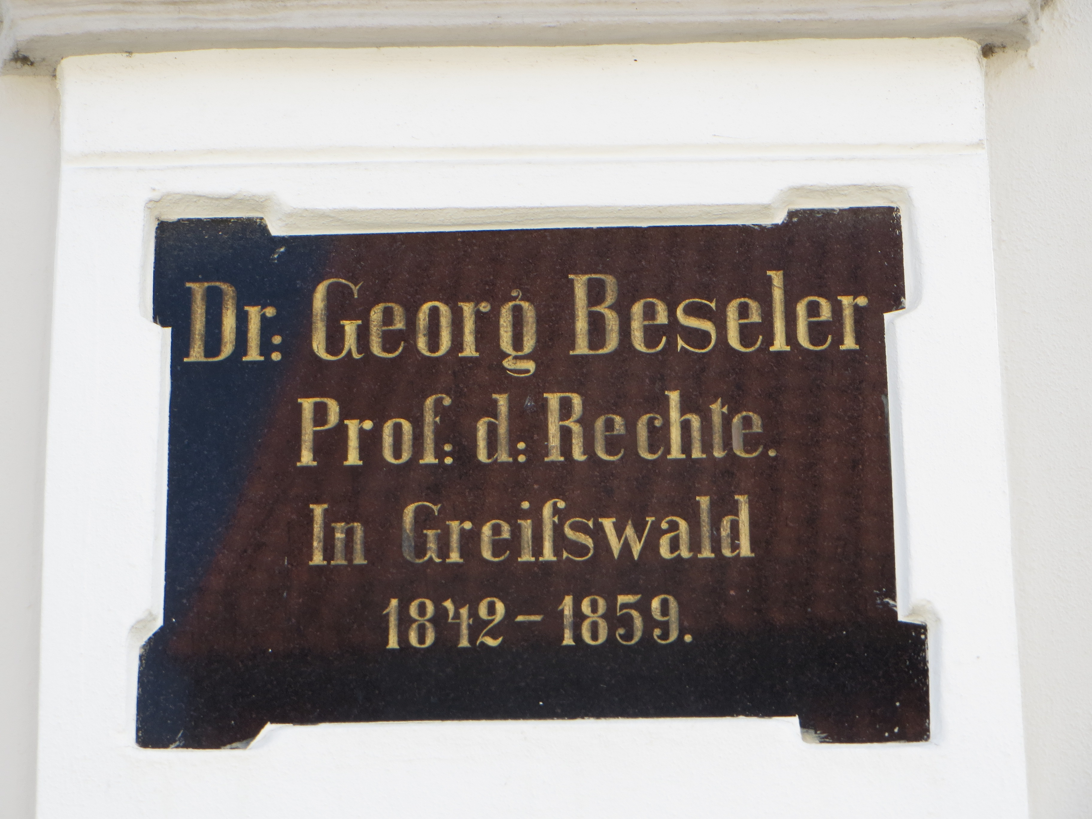 Knopfstrasse 18 in Greifswald: Plaque commemorating Georg Beseler